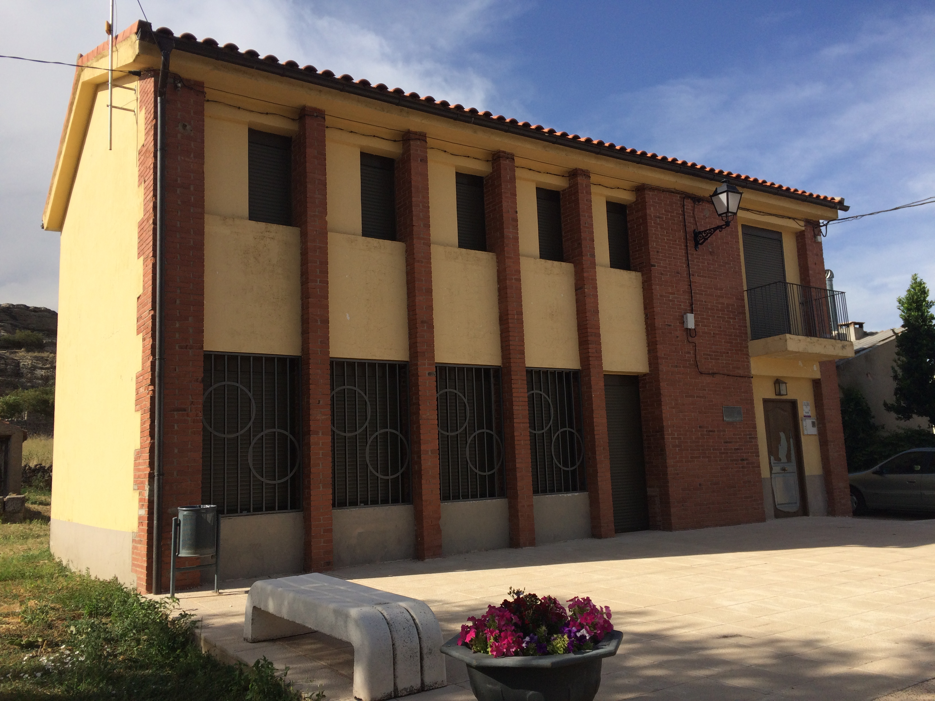 Museo arqueológico del Valle de Ambrona en las antiguas escuelas de Miño de Medinaceli (Soria)